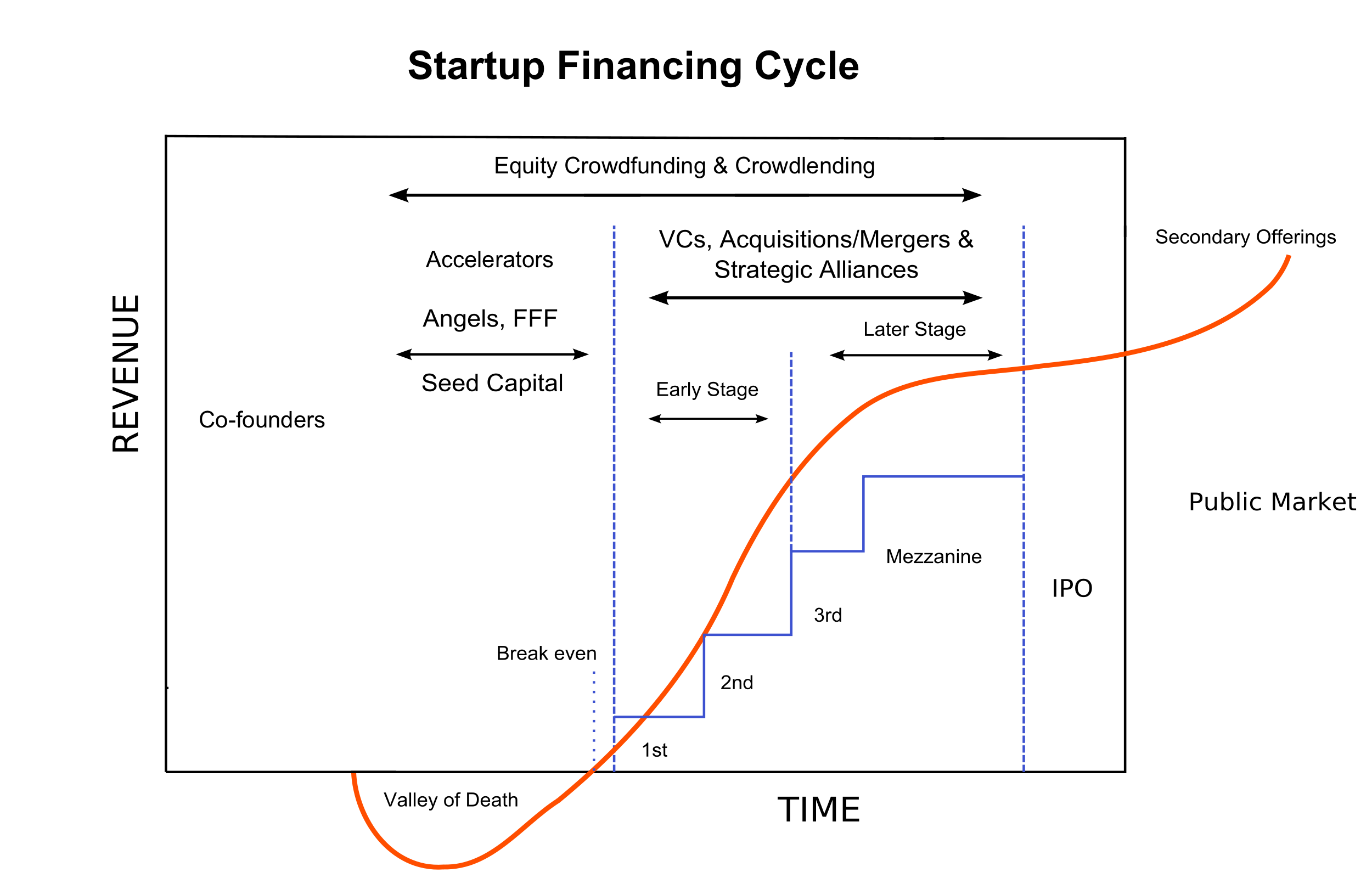 Diagram of the typical financing cycle for a startup company. Note: An image of this type, without a citation, is simply editorial original research, and so is inappropriate in the encyclopedia.